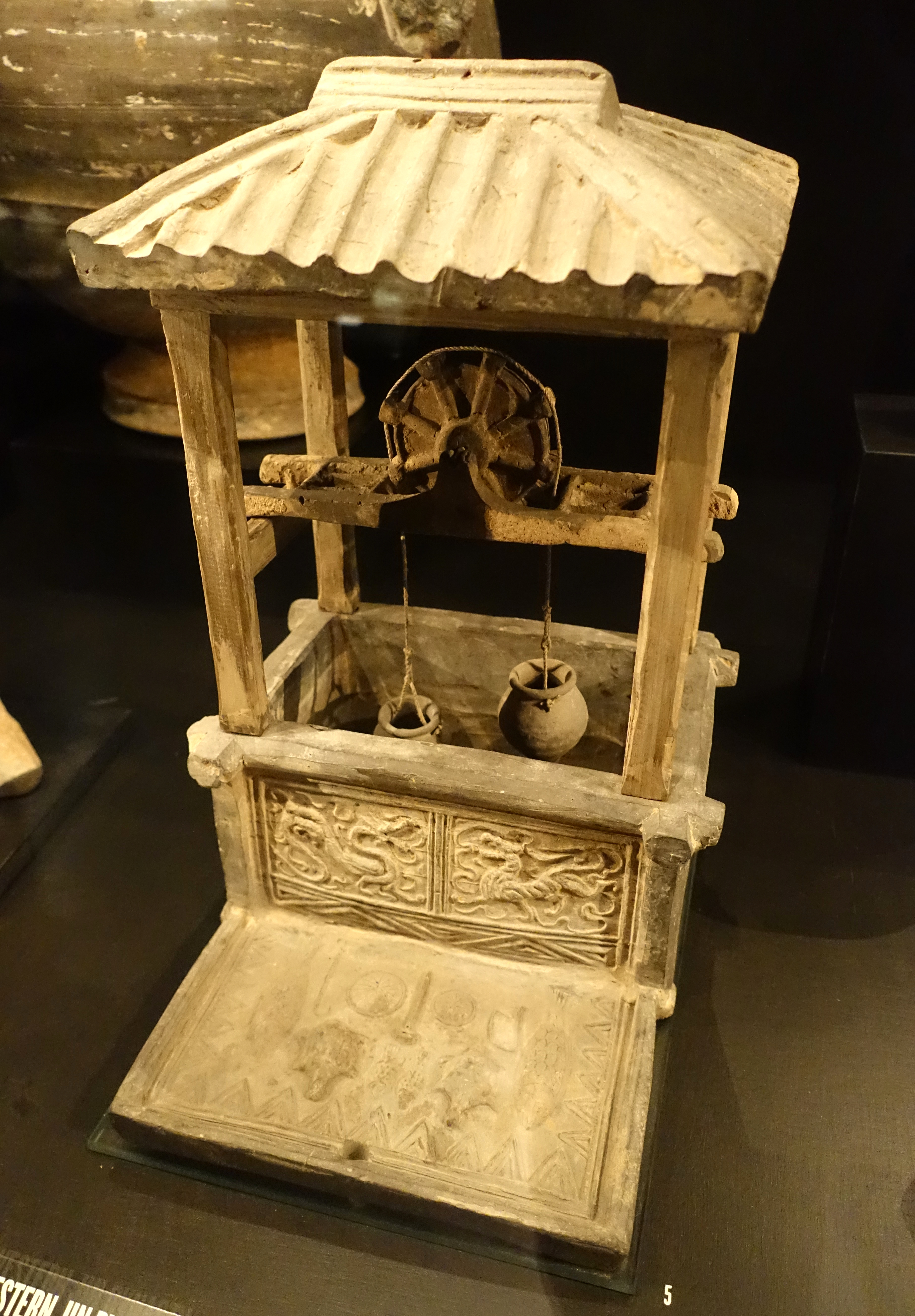 Exhibit in the Östasiatiska museet, Stockholm, Sweden. This artwork is old enough so that it is in the public domain. This is a photo of an artwork at the Museum of Far Eastern Antiquities in Sweden with the identifier: K-11000-003